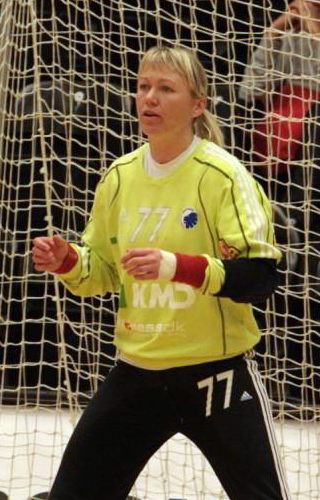 Cecilie Leganger, Norwegian handball goalkeeper, during a 2008/09 Danish Championship play off match between FC Midtjylland and FCK. The picture was taken at Ikast-Brande Arena on 22 April 2009.